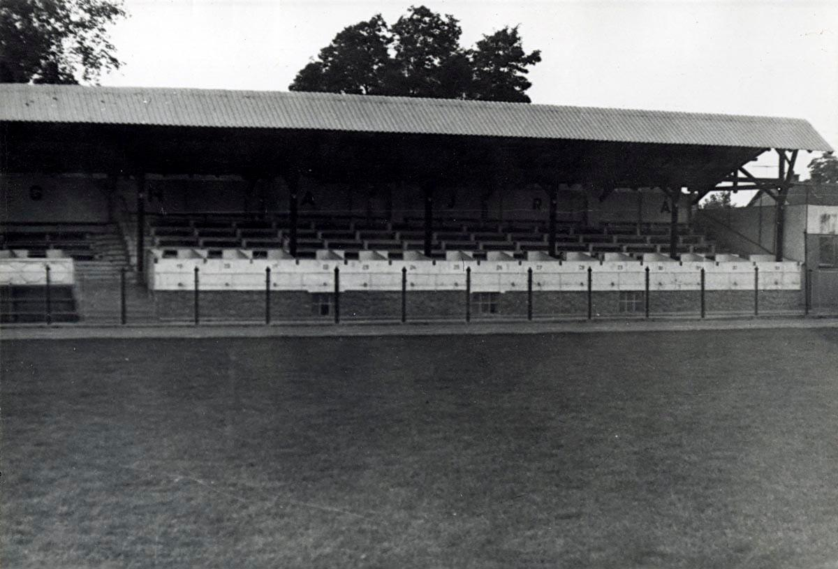 The reconstructed seating area in the beginning of 70's